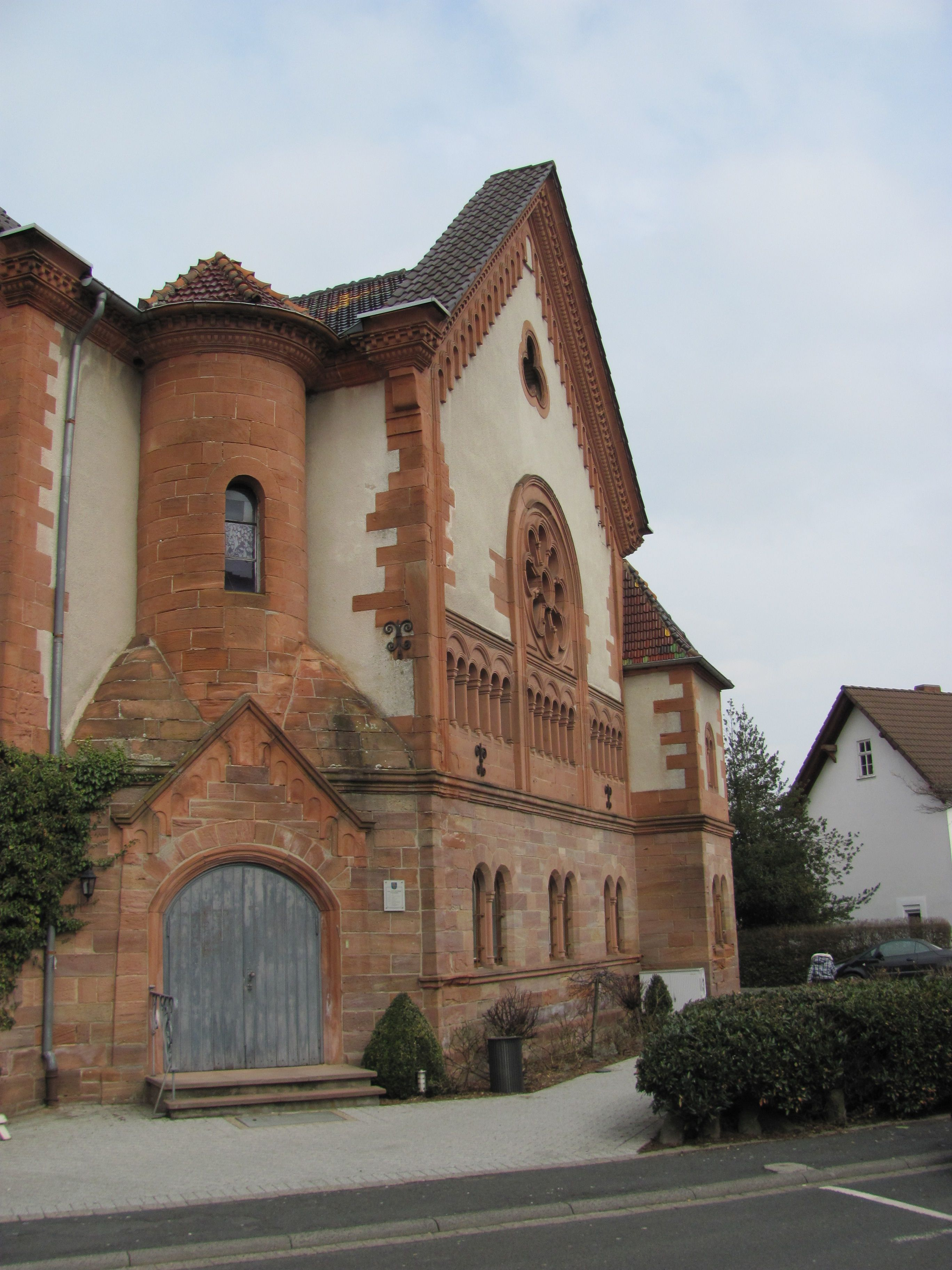 Synagogue Schlüchtern, Germany